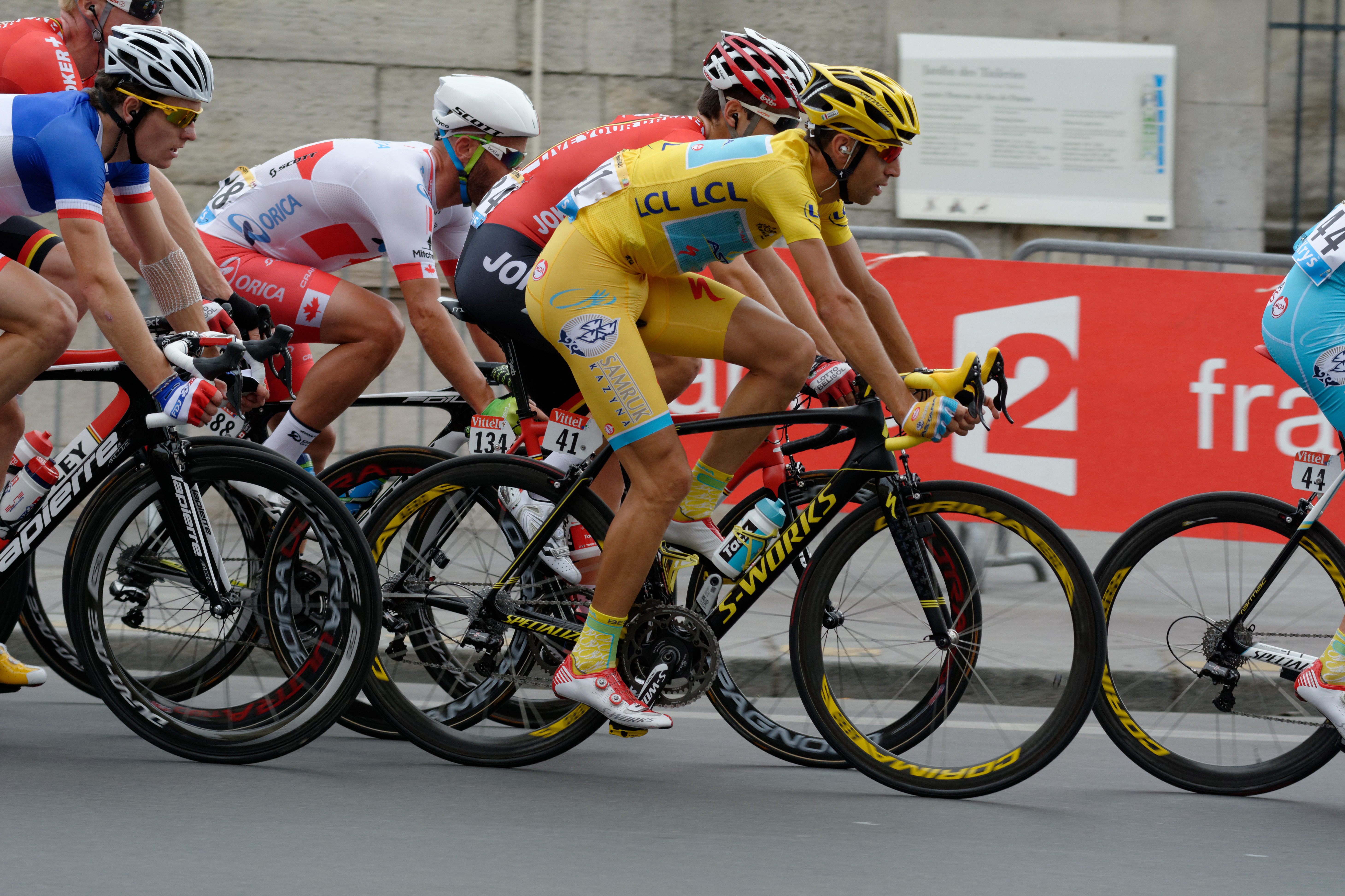 Stage 21 of the 2014 Tour de France, Paris.